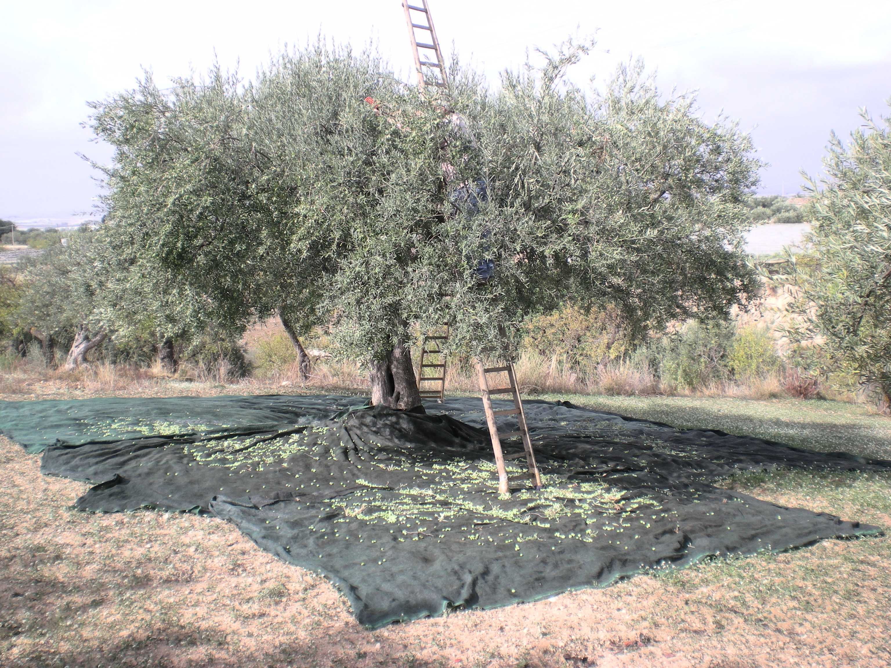 Olive tree in Chiaramonte Gulfi's countryside